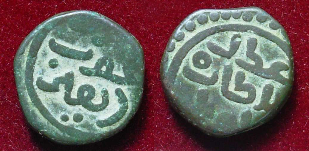 Coin of Iltutmish, image from personal collection